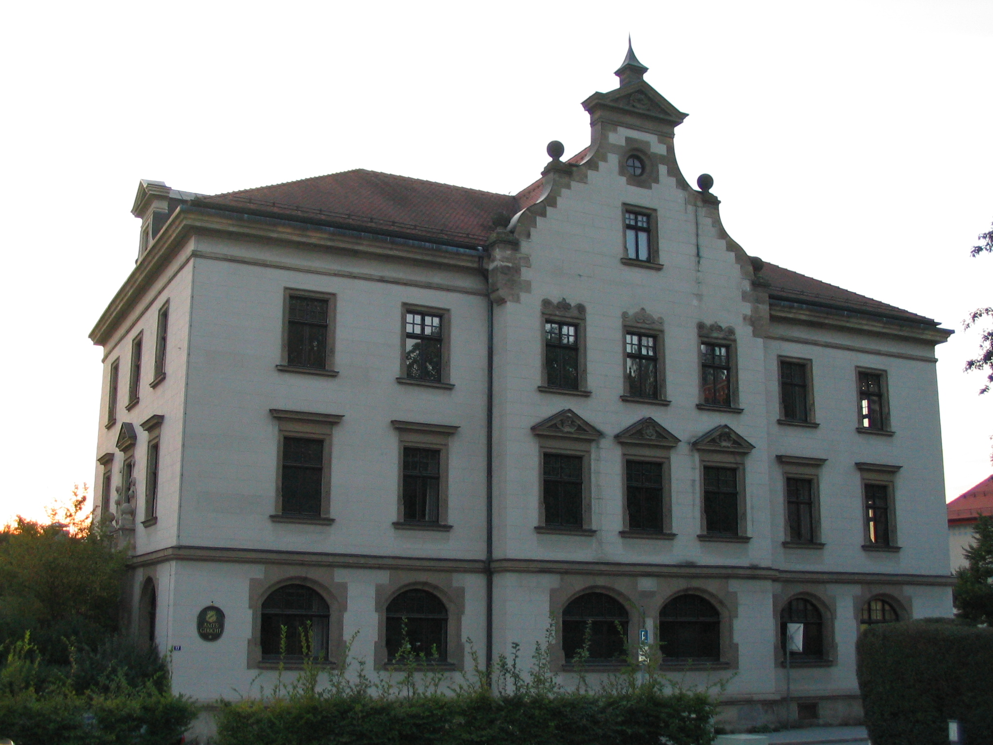 Local court, Amanstr. 17, DeggendorfThis is a photograph of an architectural monument.